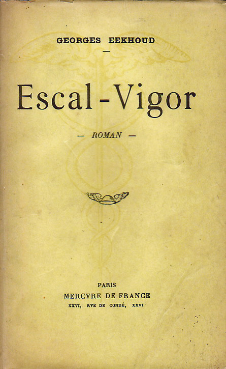 en:, Belgium: Front page of the 12th edition of the short story Escal-Vigor from Georges Eekhoud, Paris, Mercure de France, 1930